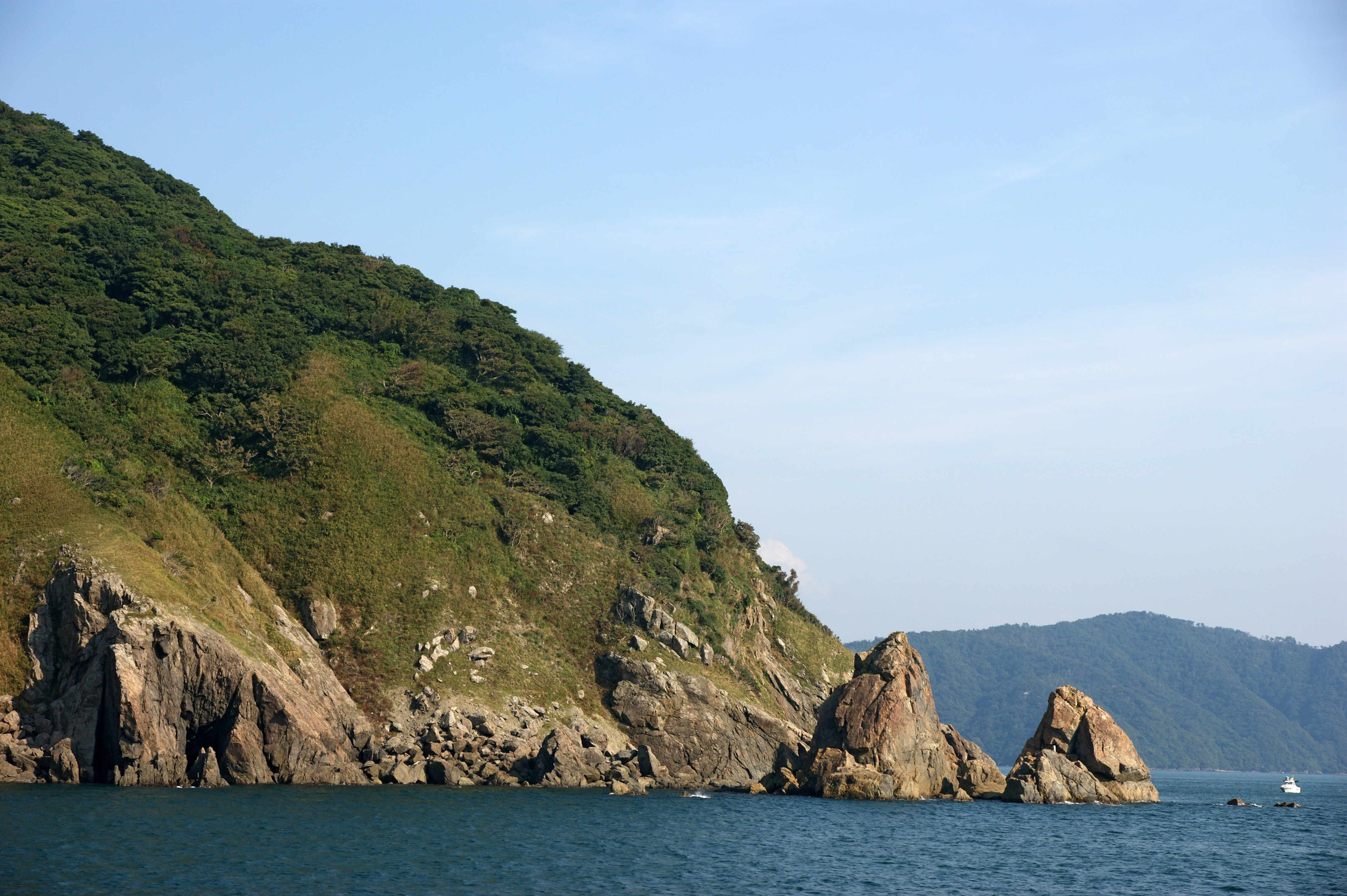 Sotomo, Obama, Fukui prefecture, Japan